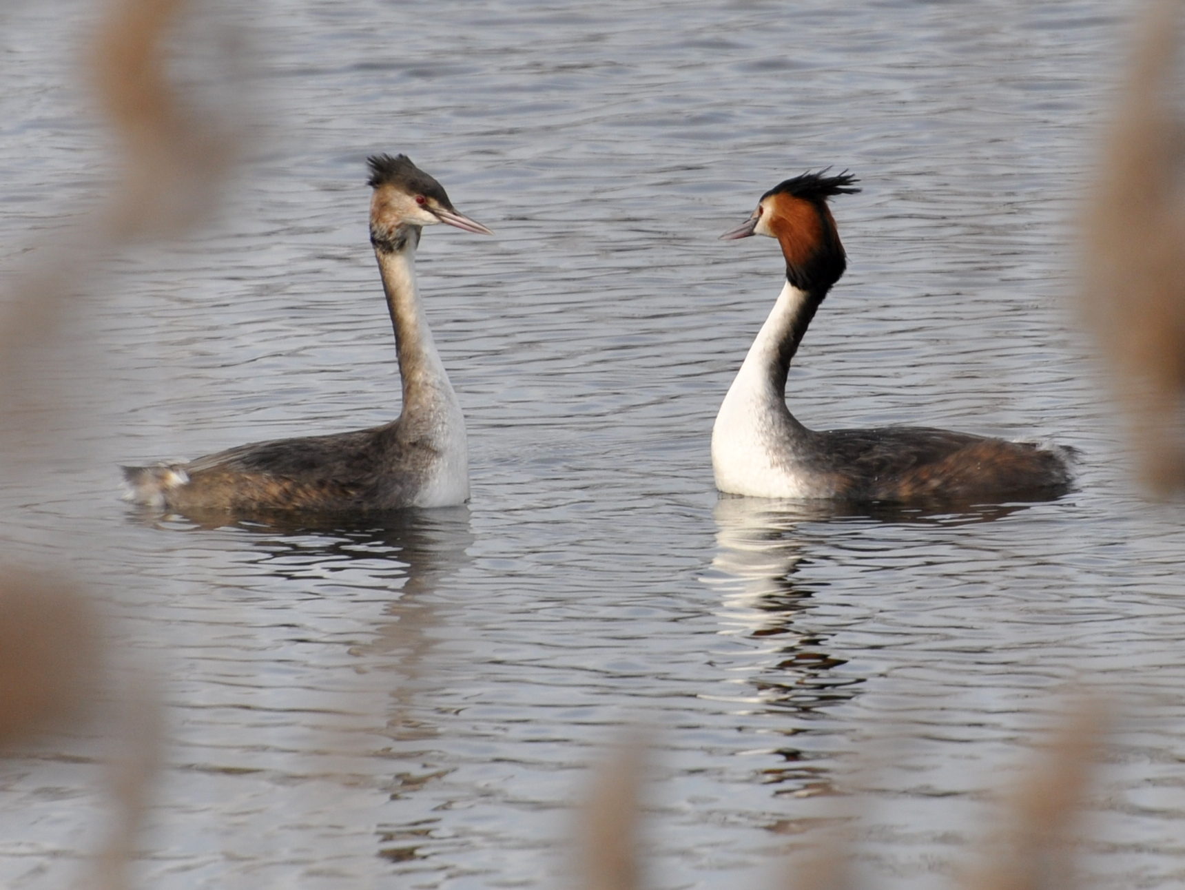 Great Crested Grebe mating display in Kirchwerder, Hamburg.